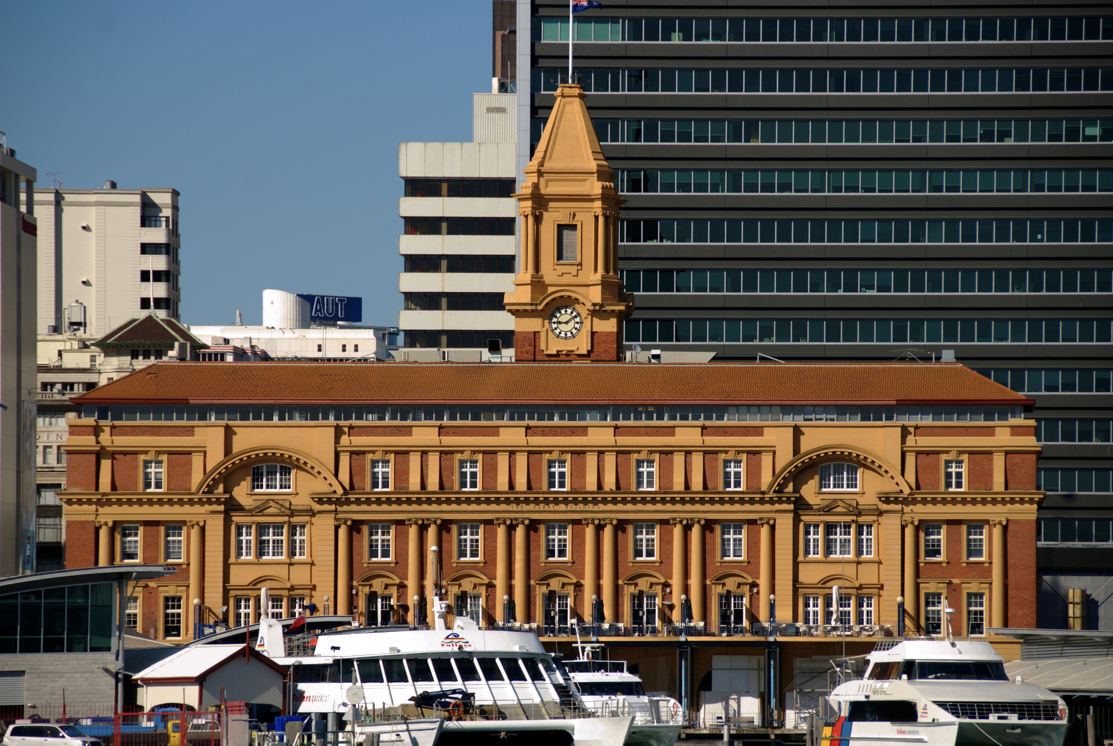 The Auckland Ferry Terminal from an early morning ferry